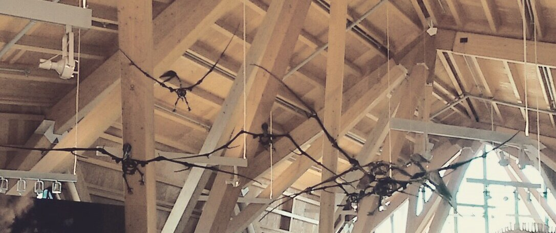 Crop of file in filename